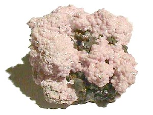 A Rhodochrosite specimen from Quirivilca, La Libertad, Peru. Intergrown, bright pink rhodochrosite crystals covering the surface of matrix block. Specimen measures 6 x 4.5 x 3.8 cm (2.3" x 1.8" x 1.5").